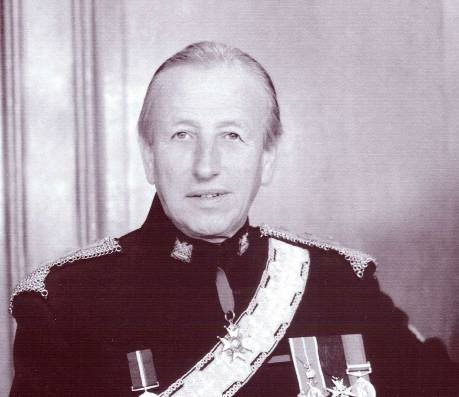 Photograph of Major General Jonathan Hall dressed as Colonel of The Royal Scots Dragoon Guards (Carabiniers and Greys)